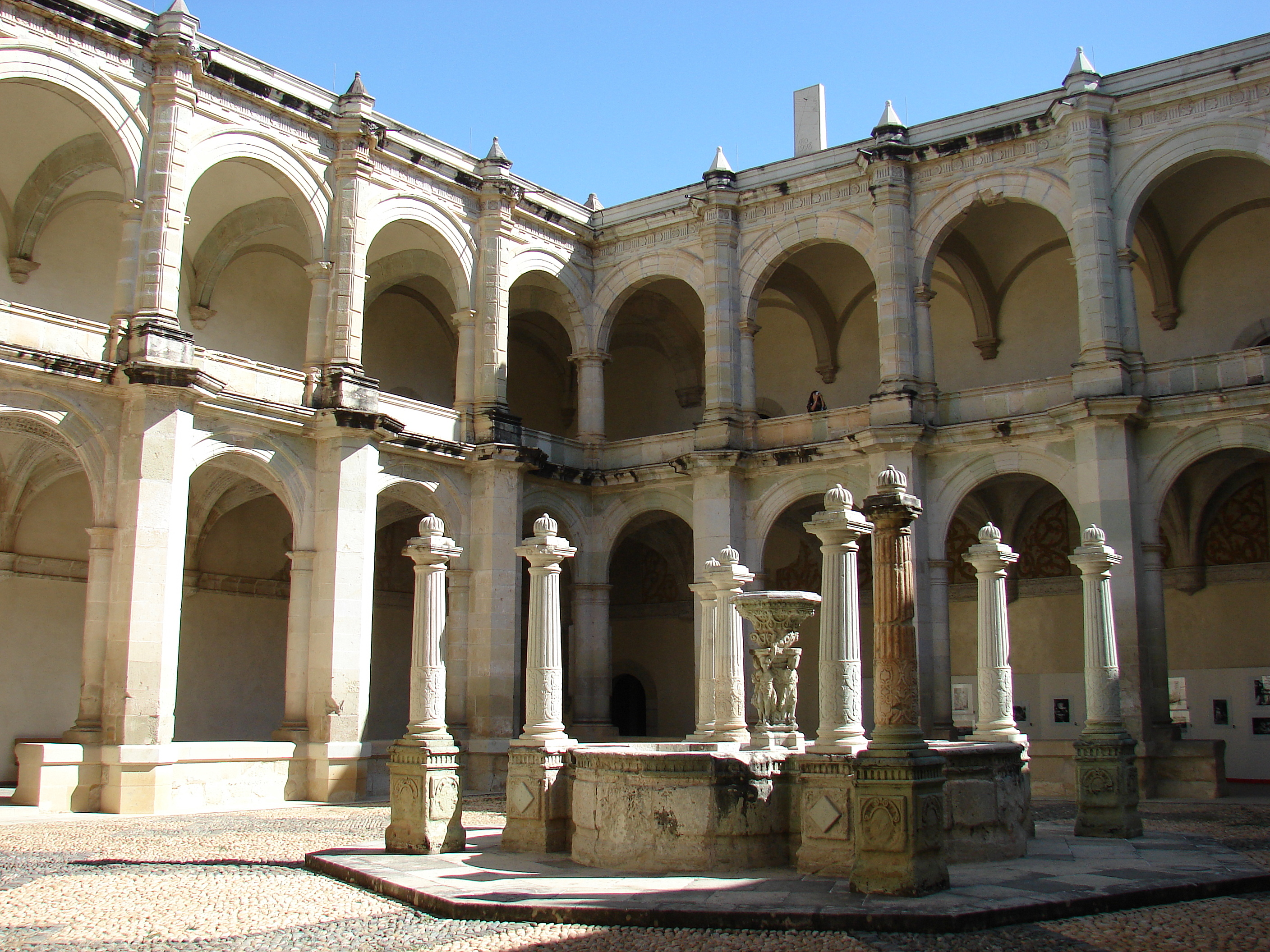 Main patio of the ex-Convent of Santo Domingo de Guzmán, Oaxaca, Oaxaca, México.